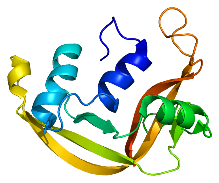 Structure of the RNASE2 protein. Based on PyMOL rendering of PDB 1gqv.